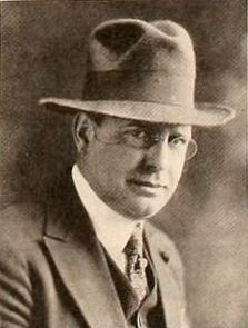 American film director Burton L. King, page 3123 of the April 3, 1920 Motion Picture News.